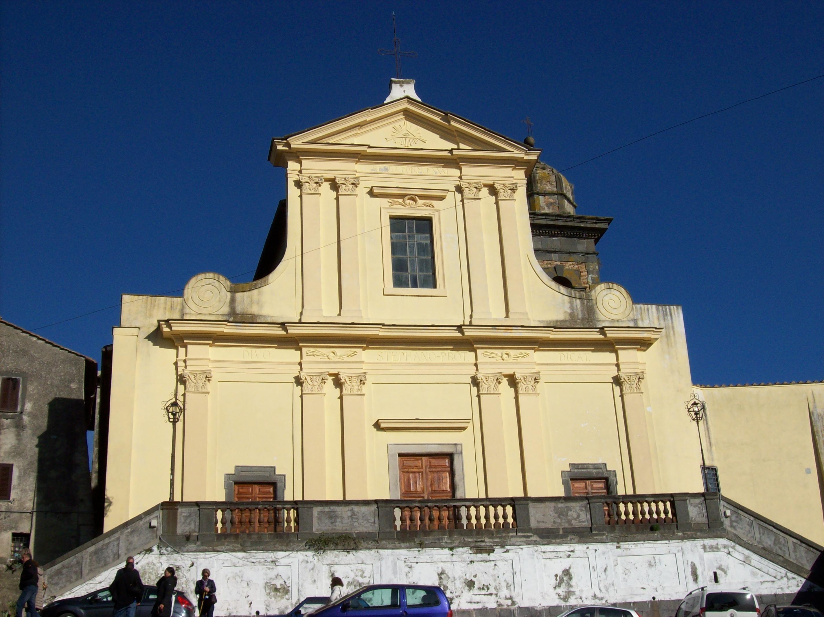 Church of St Stephen in Bracciano (province of Rome, Italy)